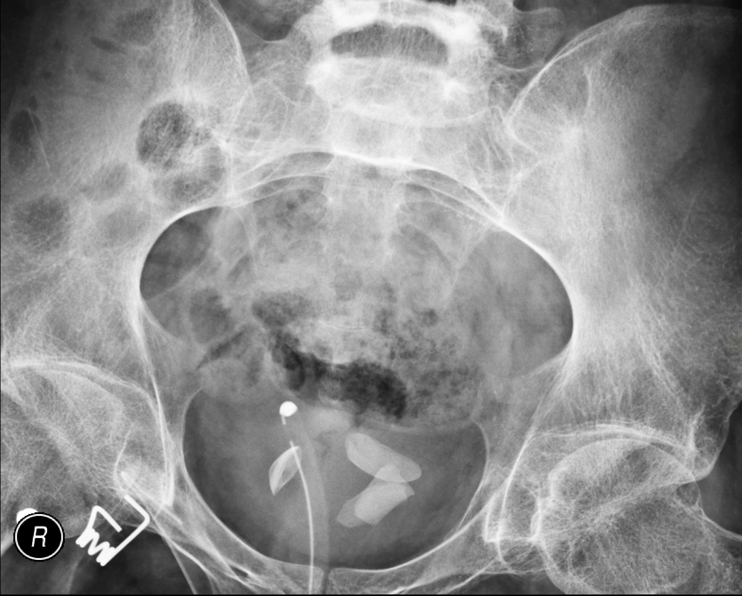 Bladder stones, Medical X-rays.